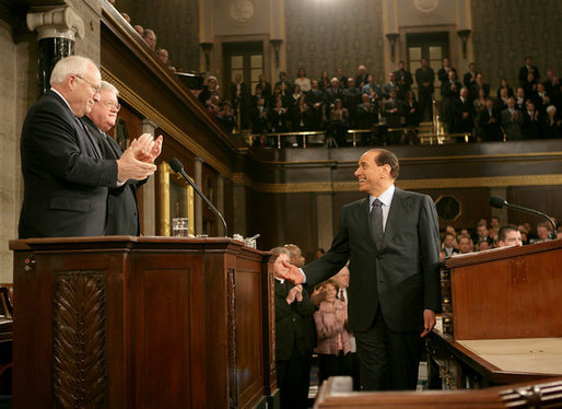 Italian Prime Minister Silvio Berlusconi smiles at Vice President Dick Cheney and House Speaker J. Dennis Hastert, as he gestures in response to a warm welcome given by members of a joint session of Congress, Wednesday, March 1, 2006.